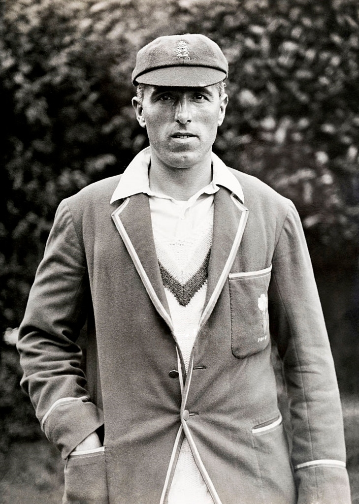 Leicestershire and England cricketer George Geary, circa 1930.